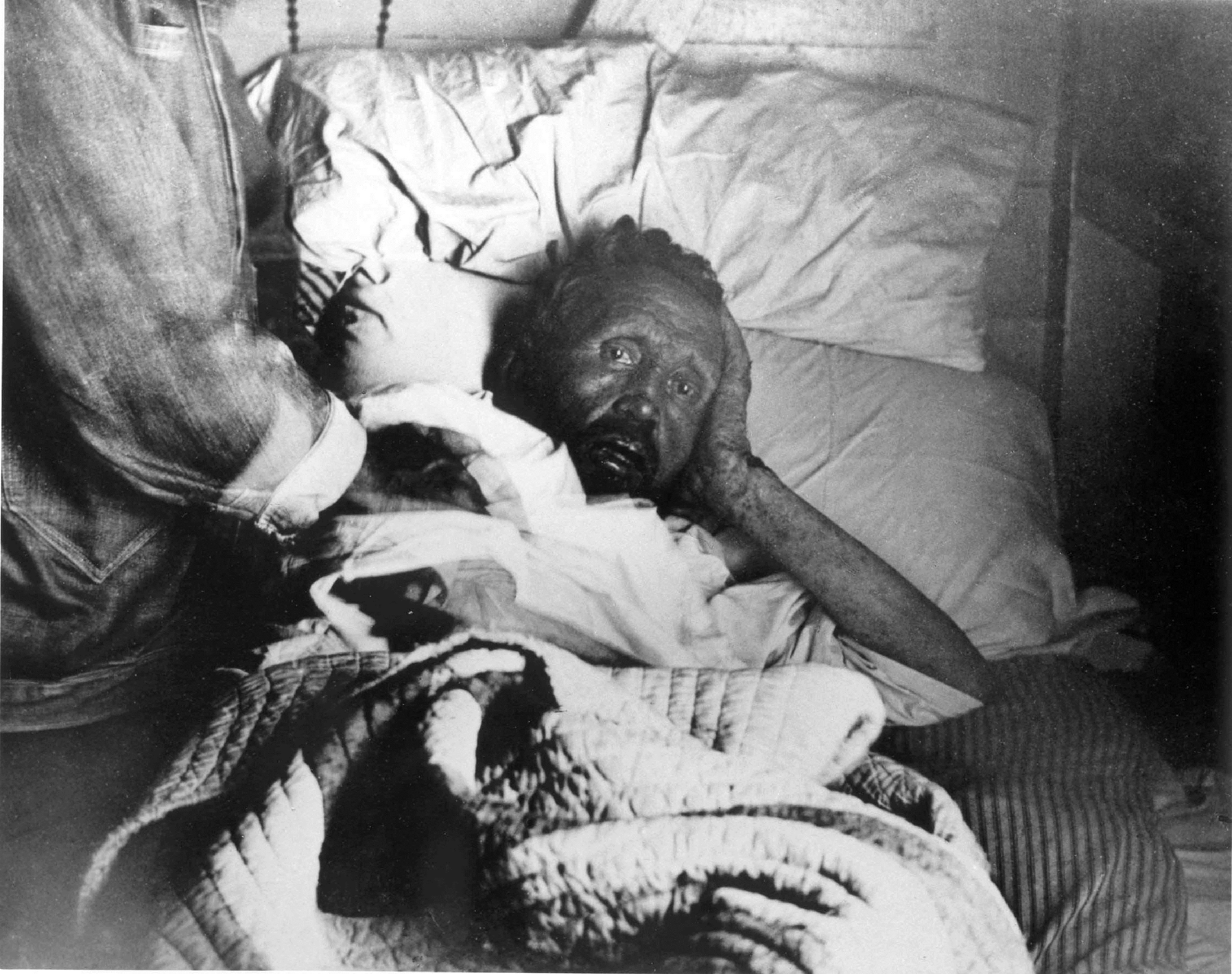 Father Damien on his deathbed, resting on his side. Presumably taken by Dr. Sydney B. Swift on Palm Sunday, April 14, 1889.